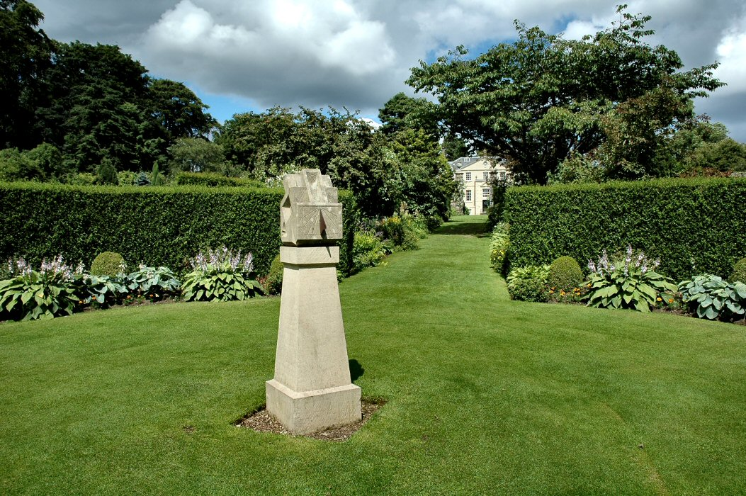 Greenbank House from the Garden. Photograph by David Kelly.